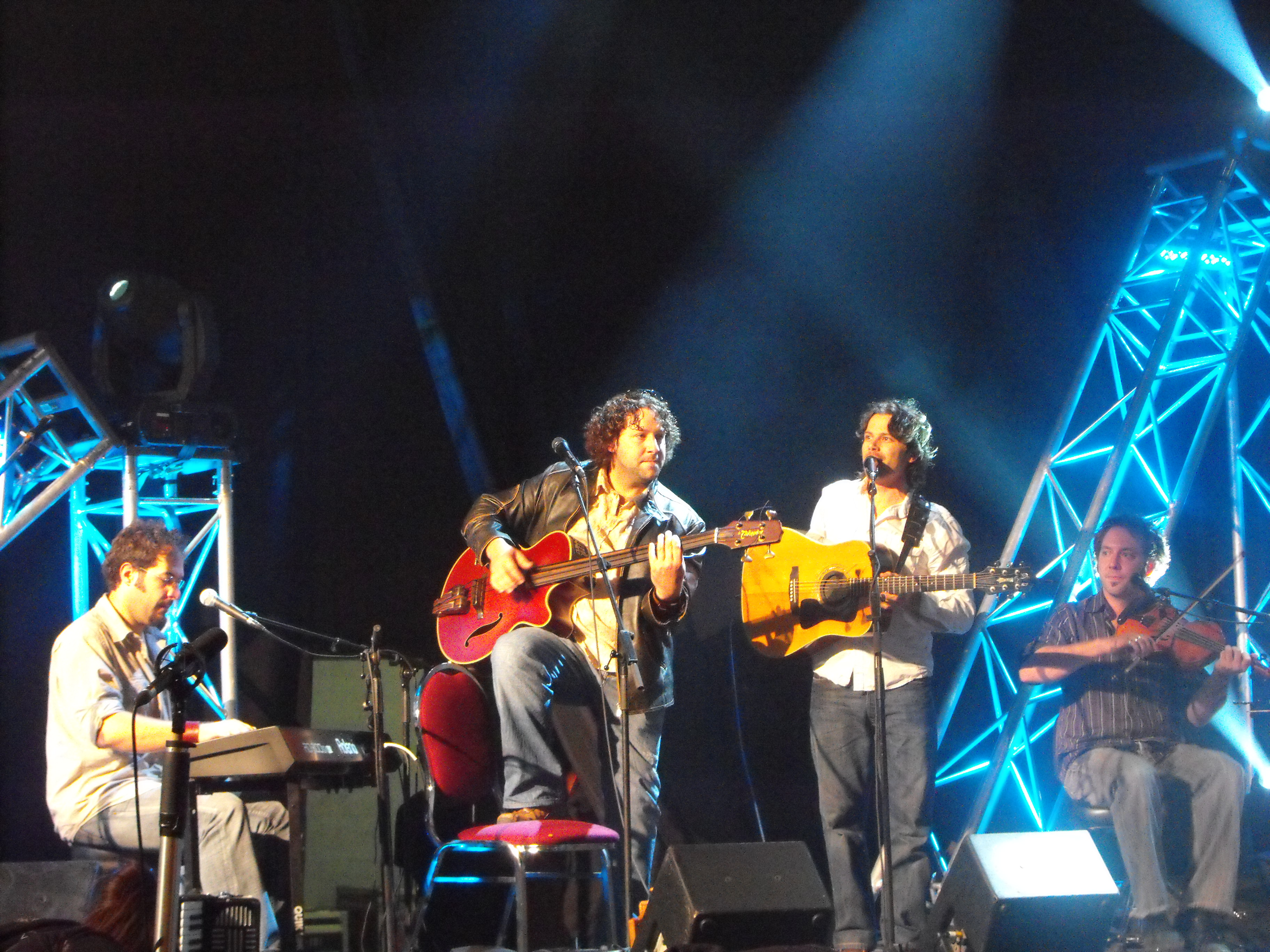 The folk music group Le Vent du Nord at Saint-Hyacinthe